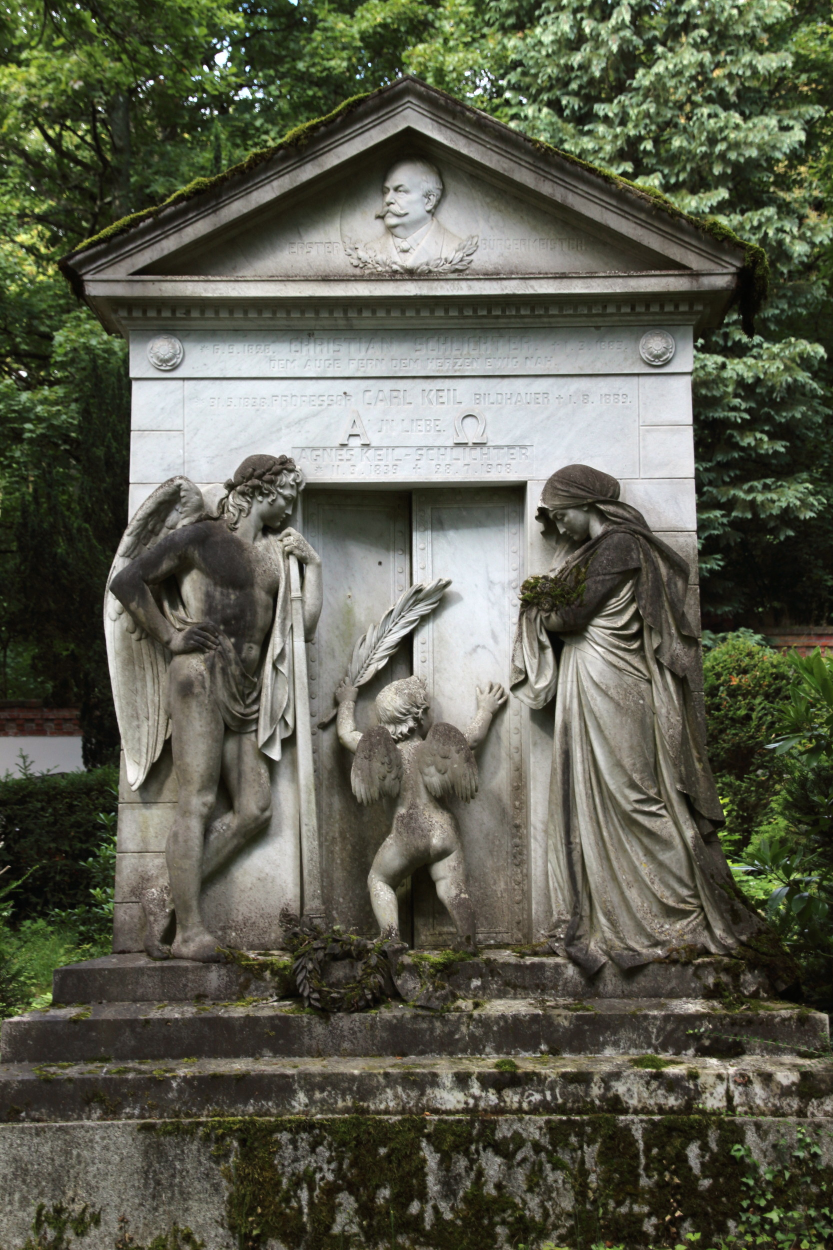 Gemeinsames Grabmal des ehemaligen Bürgermeisters von Wiesbaden Christian Schlichter (1828-1883); Prof. Carl Keil (1838-1889); Agnes Keil-Schlichter (1839-1908). Schlichters Frau Agnes gab das Grabmal beim Bildhauer Carl Keil in Auftrag, mit dem sie später in zweiter Ehe verheiratet war. Nordfriedhof Wiesbaden